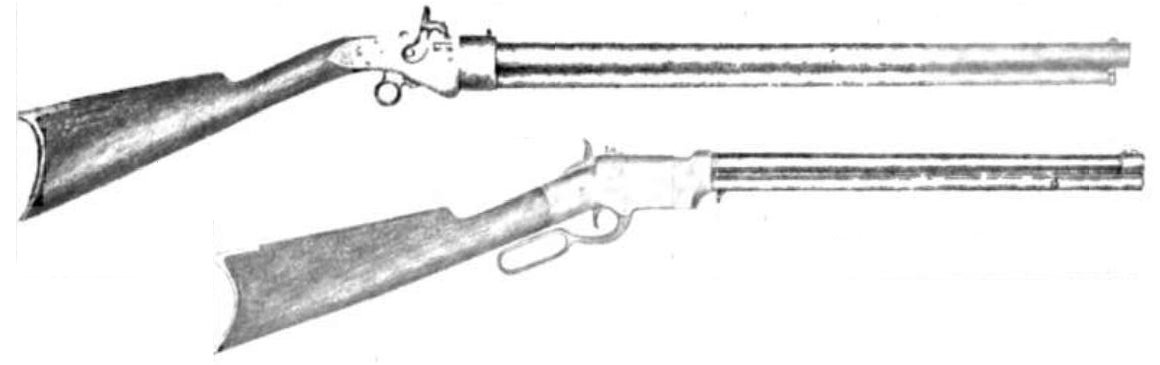 Top: A Jennings patent version of Walter Hunt's Volition Rifle, which fired the Hunt Rocket Ball cartridge. Note percussion cap hammer, as the Rocket Ball was externally primed. Bottom: A Volcanic Repeating Arms Company lever action rifle, firing the improved, internally primed Volcanic cartridge. The Henry Rifle uses the same design, adapted to rimfire ammunition.